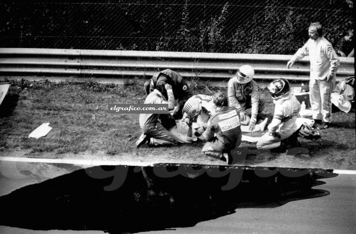 Niki Lauda car crash in Nurburbring